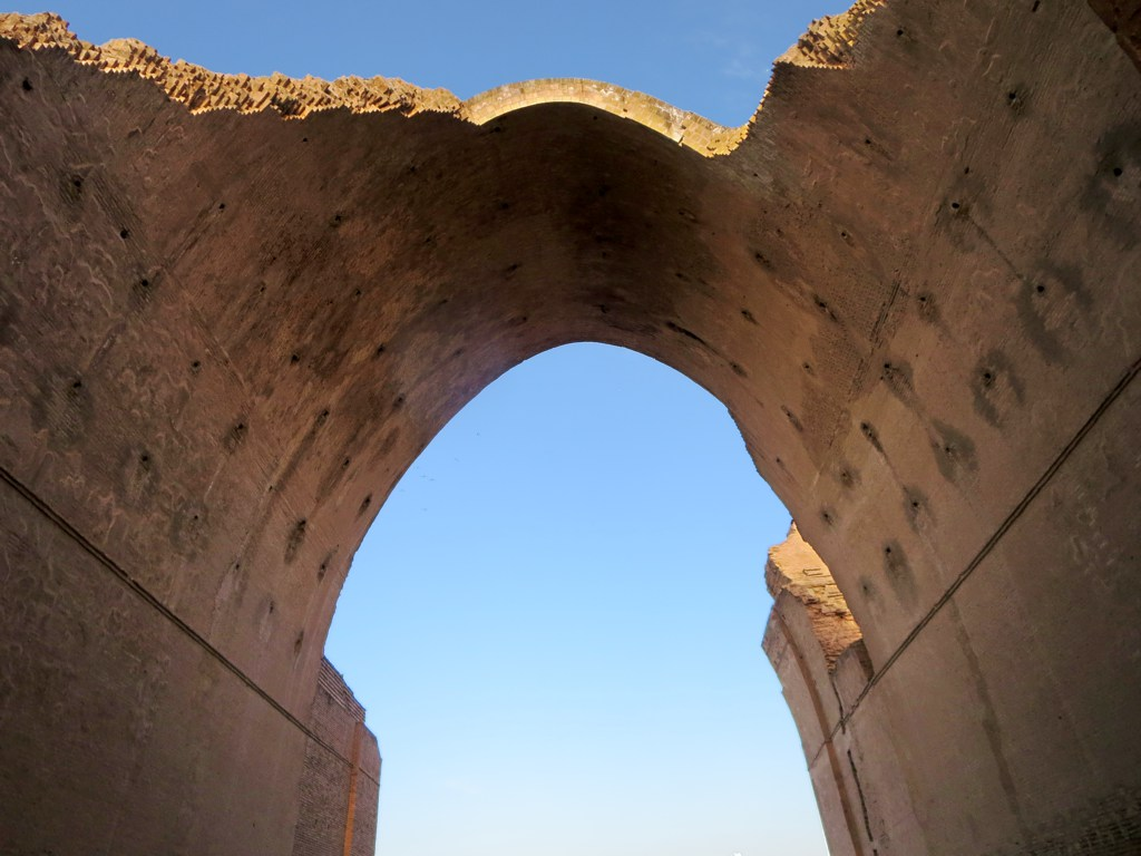 The Arch of Ctesiphon at Taq Kisra, 44 kilometers southeast of Baghdad, Iraq, is the widest single-span brick vault in the world. In the 3rd century BC the arch sheltered a Parthian banqueting hall.